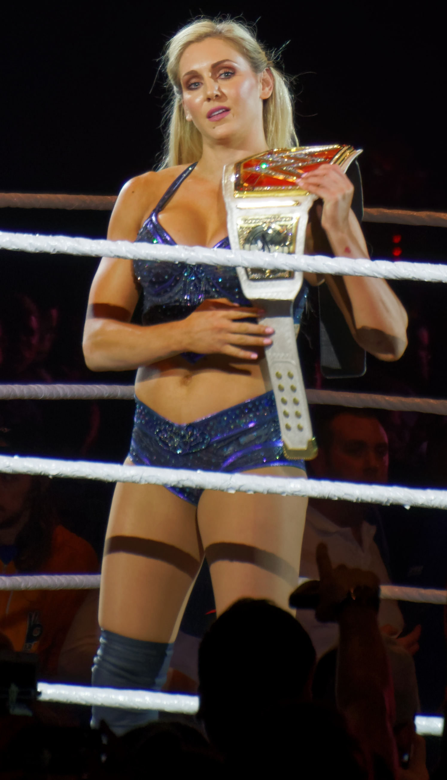 Charlotte as Raw Women's Champion in September 2016